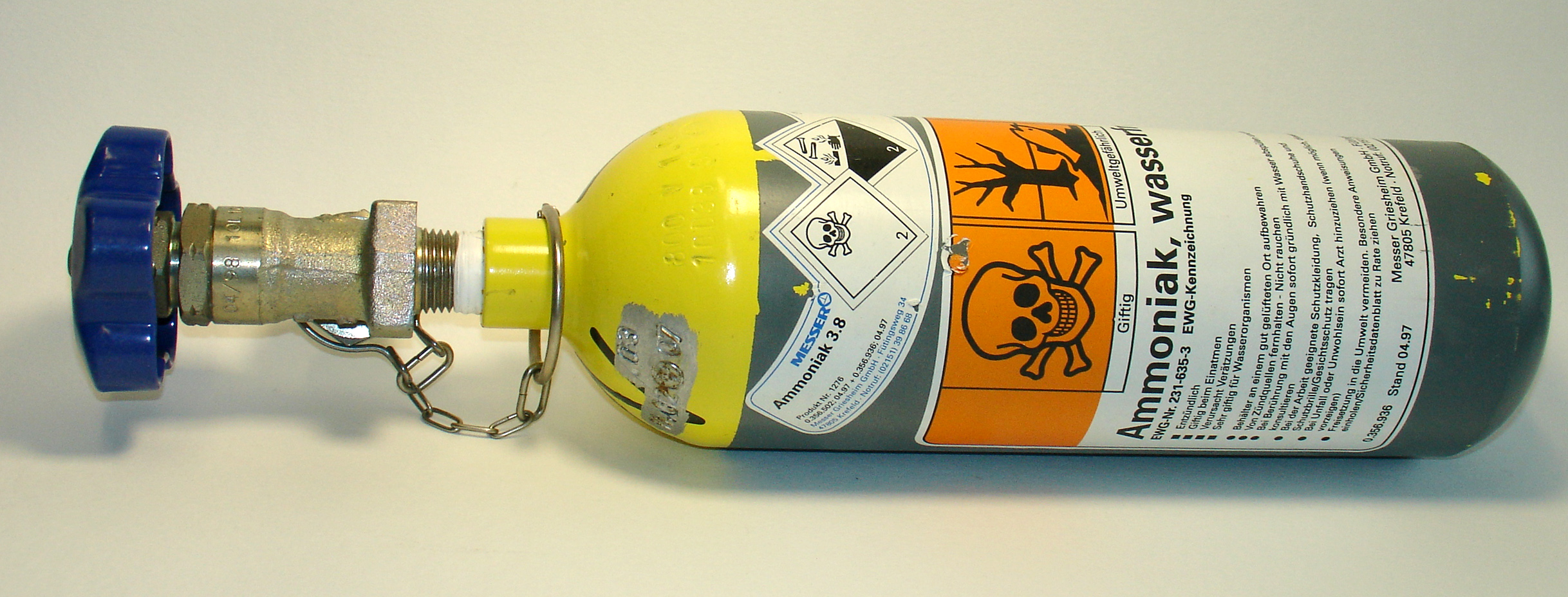 Small gas cylinder with pure ammonia